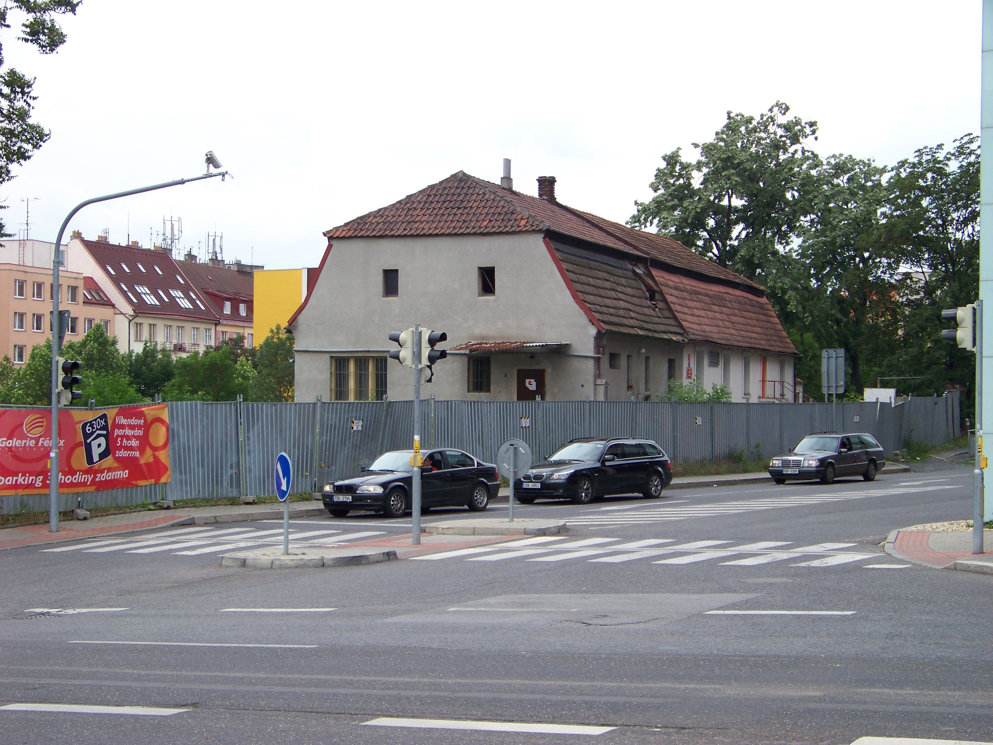 Prague-Vysočany, the Czech Republic. Freyova 28/31a and 25/31.